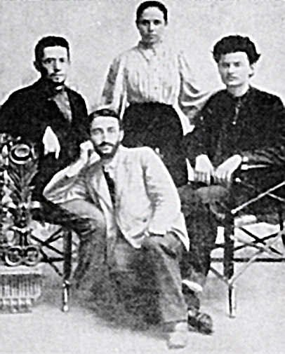 Leon Trotsky (right) with Ilya Sokolovsky, Dr Ziv and Alexandra Sokolovskaya.